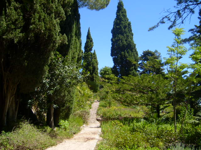 View of the garden of the Castel Sainte-Claire, the home of Edith Wharton, Hyeres, France